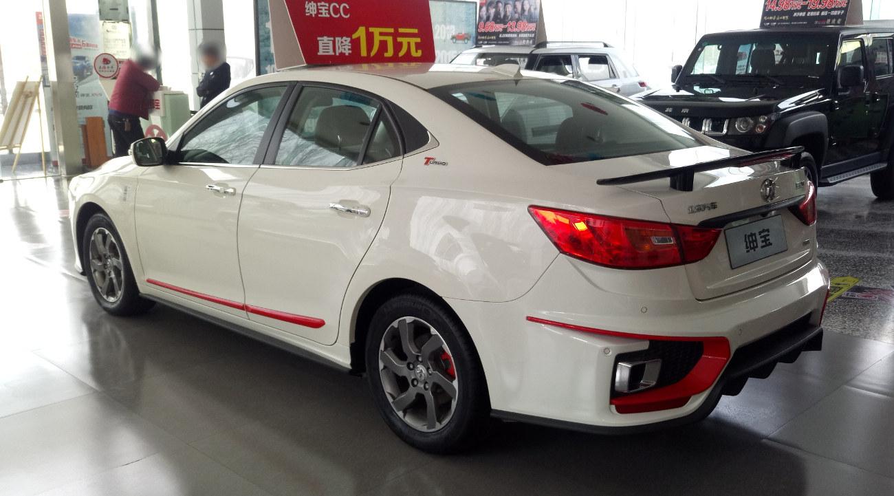 Senova CC photographed in Yinchuan, Ningxia province, China.